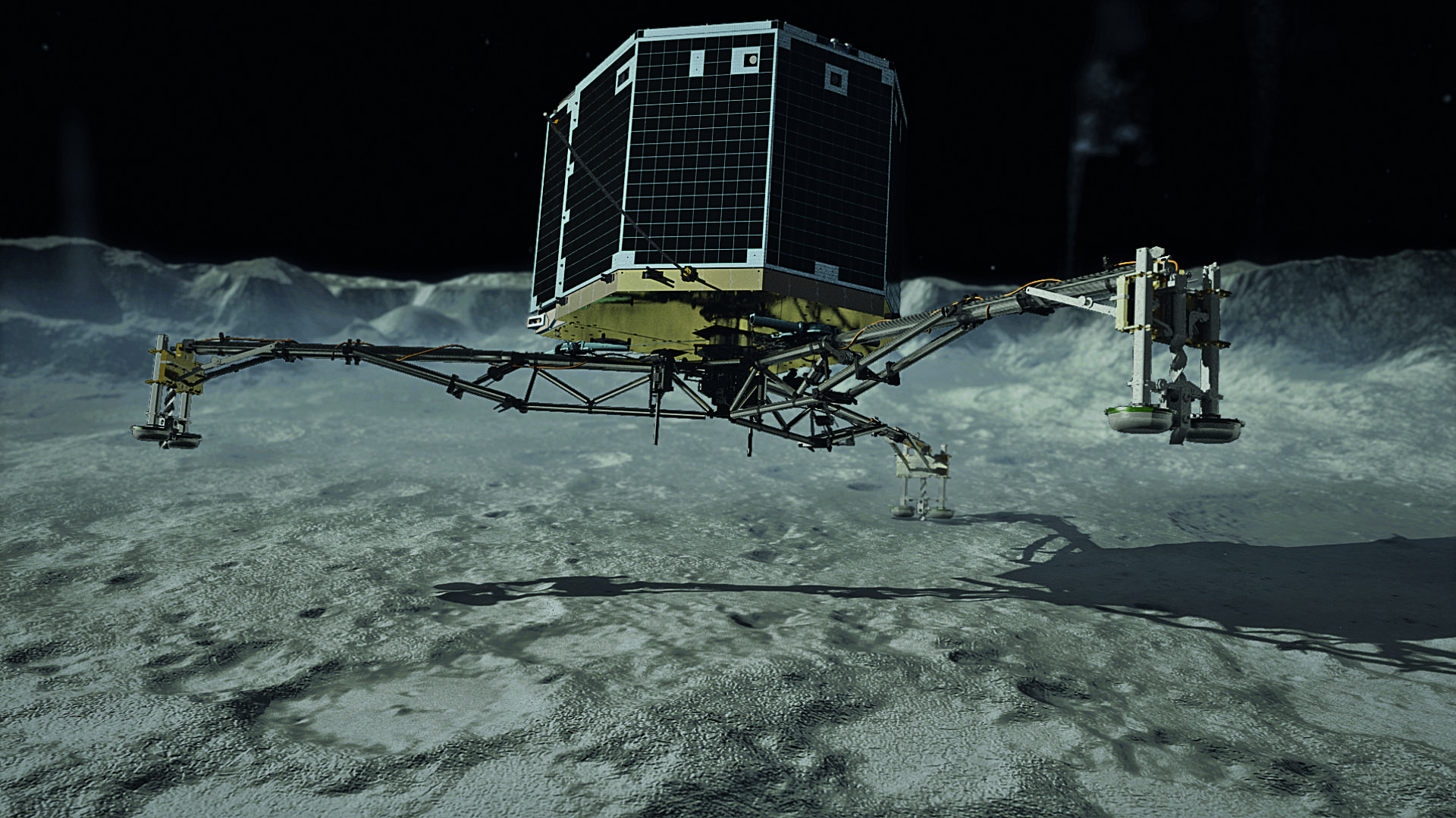 Few things could be more fascinating or demanding in the history of European space travel than the Rosetta comet mission. The lander, Philae, will separate from its parent craft on 11 November 2014, touch down on the comet and immediately fire harpoons to anchor itself on the surface. The two spacecraft will then accompany the comet on its month-long journey to the point at which it is closest to the Sun. Philae lander instruments The Rosetta mission – breaking ground in space research Videos Updates Credit: DLR (CC-BY 3.0) DEUTSCH Die Kometen-Mission Rosetta ist eine der faszinierendsten und zugleich anspruchsvollsten Unternehmungen der europäischen Raumfahrt. Am 12. November 2014 wird sich das Landegerät Philae vom Mutterschiff lösen, auf dem Kometen aufsetzen und sich sofort mit Harpunen im Eis verankern. Beide begleiten den Schweifstern auf seinem mehrmonatigen Weg zu seinem sonnennächsten Punkt. Instrumente des Philae-Landers Die Mission Rosetta - Ein Meilenstein in der Erforschung des Weltraums Videos Updates Credit: DLR (CC-BY 3.0)